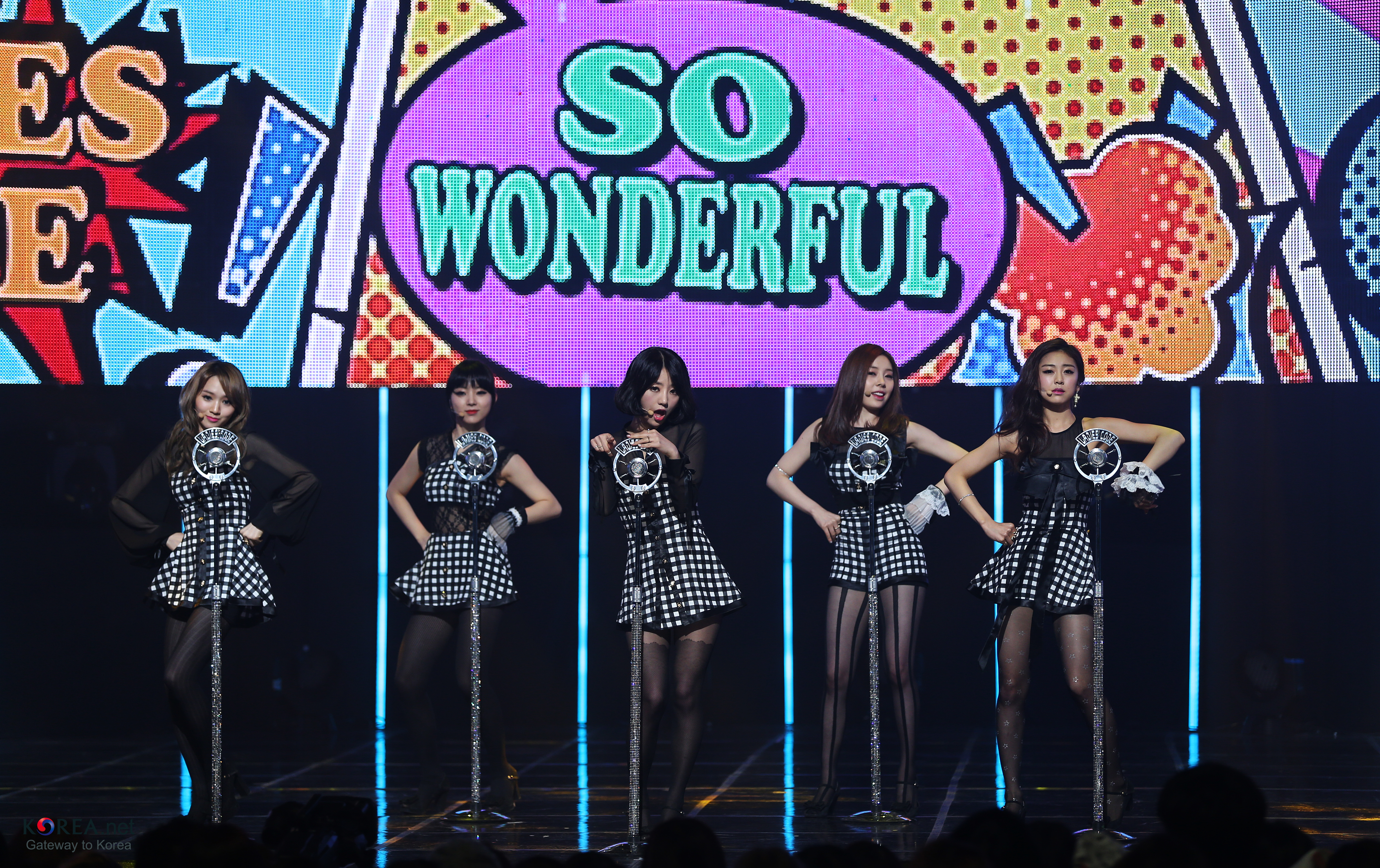 Mcountdown Ladies’ Code ‘So Wonderful’ Rise, So Jung, Ashley, EunB, Zuny CJ E&M Center, Sangam-dong, Mapo-gu, Seoul 2014.03.06. Ministry of Culture, Sports and Tourism Korean Culture and Information Service ( Jeon Han 엠카운트다운 생방송 레이디스 코드(리세, 소정, 애슐리, 은비, 주니) ‘소 원더플’ 2014-03-06 CJ E&M 센터 문화체육관광부 해외문화홍보원 코리아넷 전한